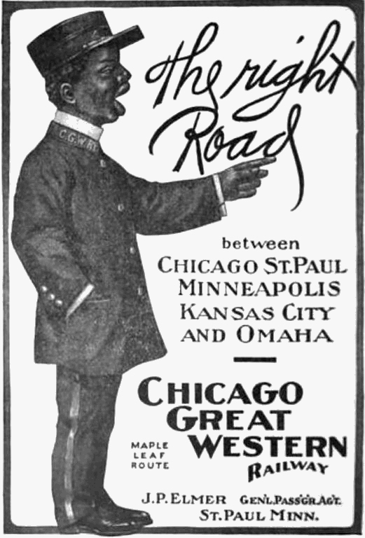 1907 Chicago Great Western Railway ad: "The Right Road between Chicago[,] St. Paul[,] Minneapolis[,] Kansas City and Omaha."